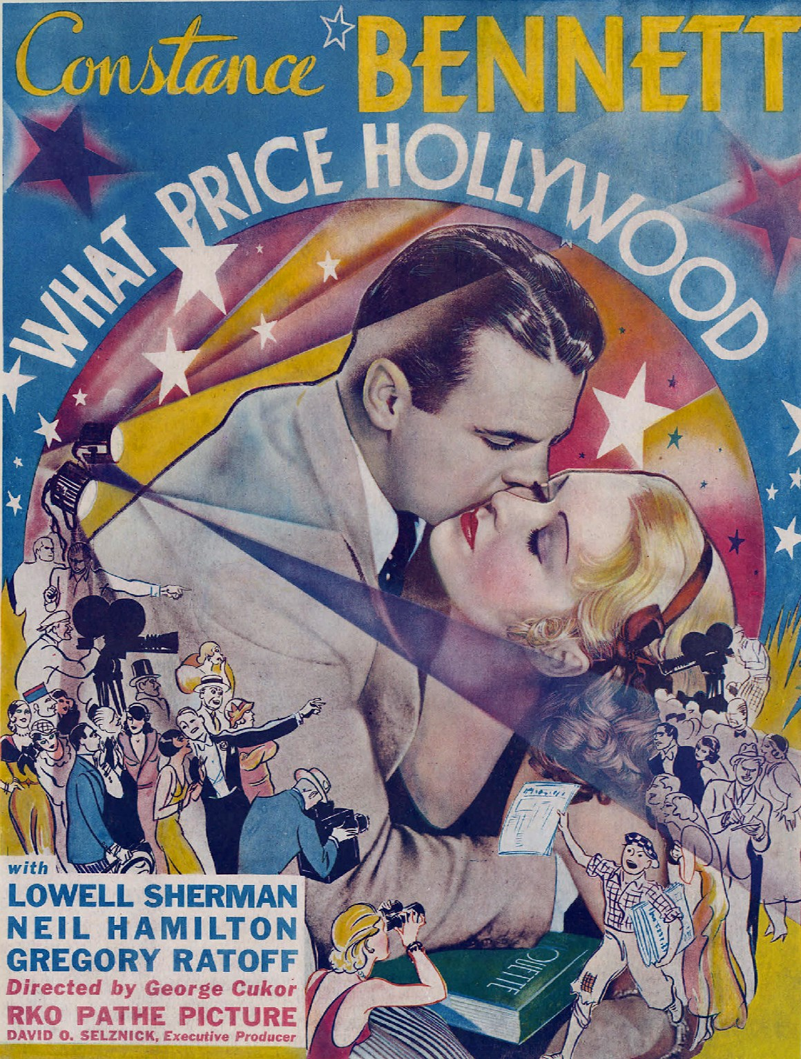 Window card for the 1932 film What Price Hollywood?. The item has no copyright markings on it as can be seen in the links above. At bottom left is Printed in USA.